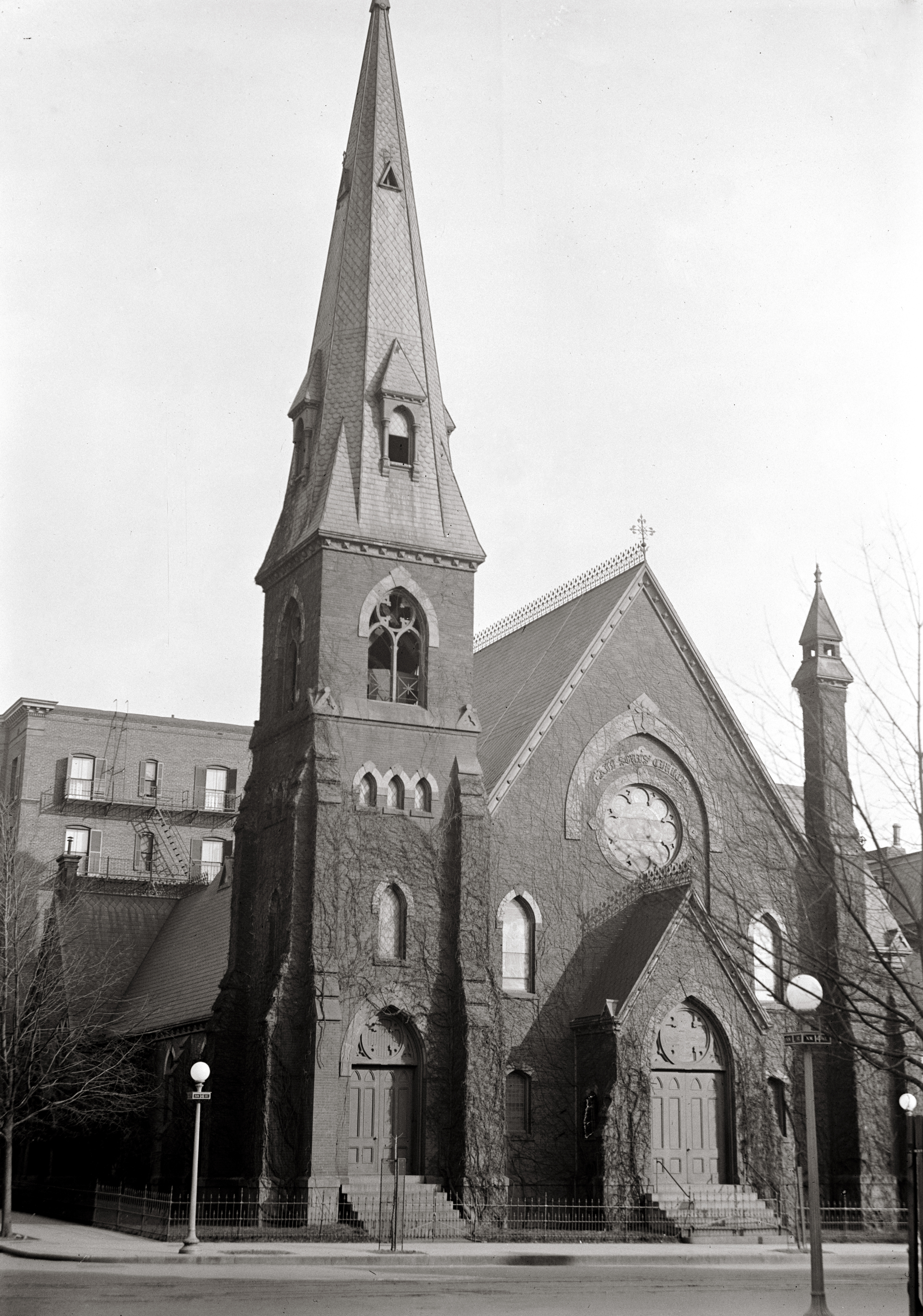 All Souls Church, Unitarian located at 14th and L Streets, NW in Downtown Washington, D.C. (current site of the twelve-story office building, Franklin Court). Since 1923, All Souls has been located at 2835 16th Street, NW (convergence of the Columbia Heights, Adams Morgan, and Mount Pleasant neighborhoods).